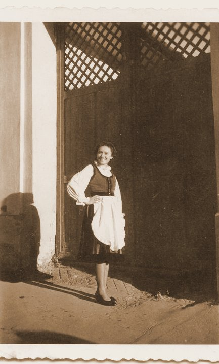 Mrs. Galántai in national costume of Székely